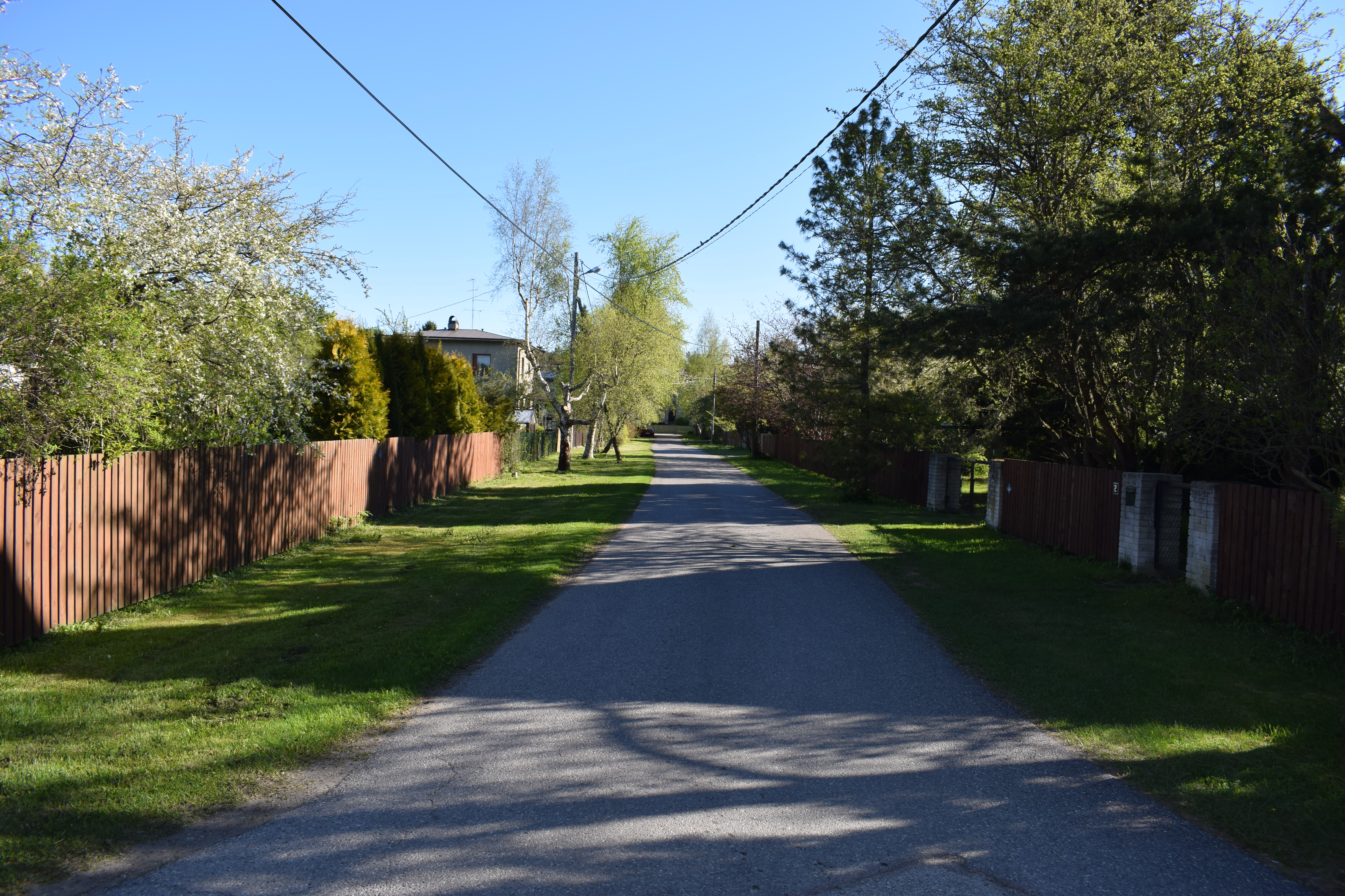 Meremehe road